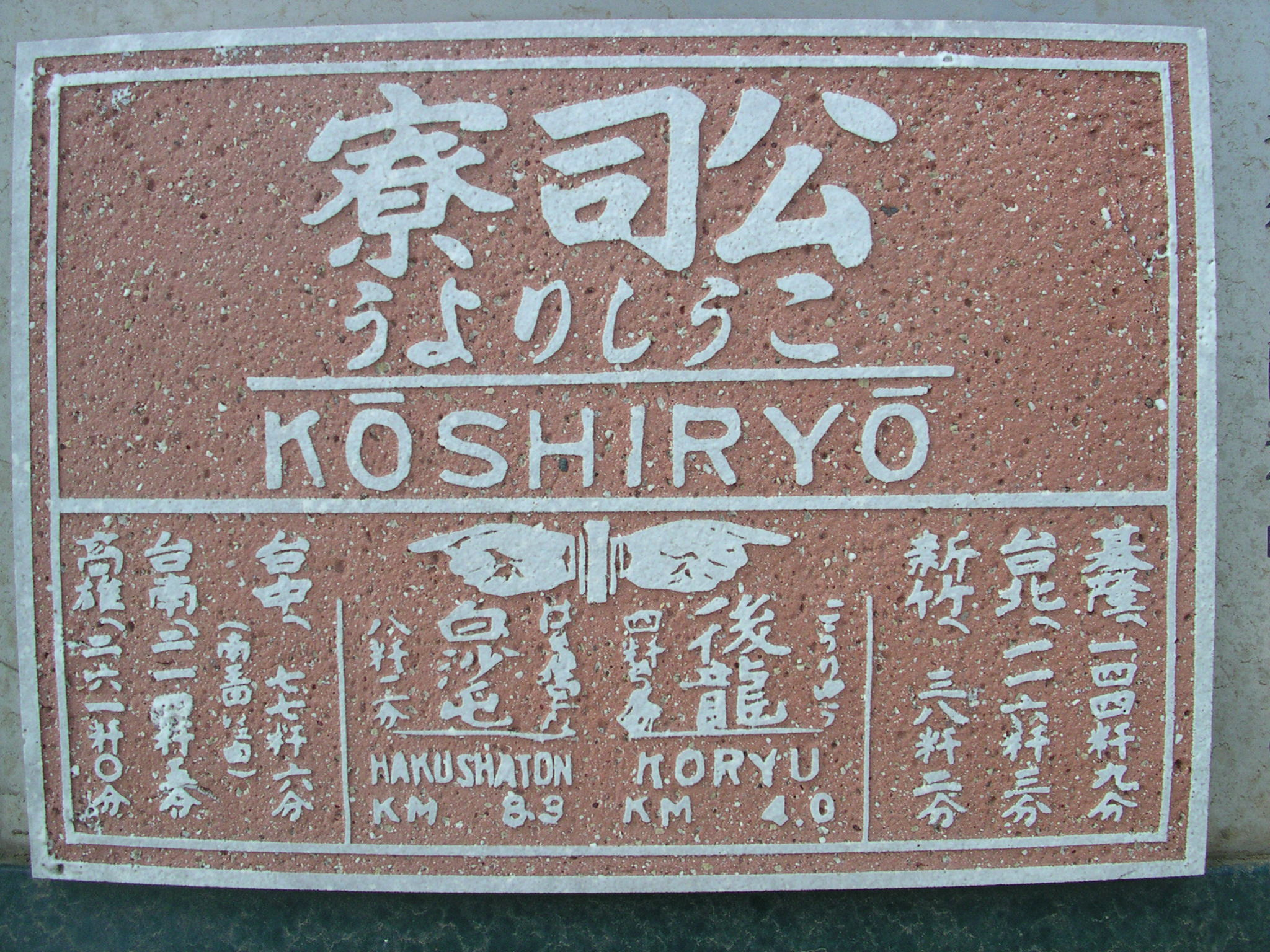 Koshiryo_eki and called Longgang Station today, Houlong, Miaoli, Taiwan.